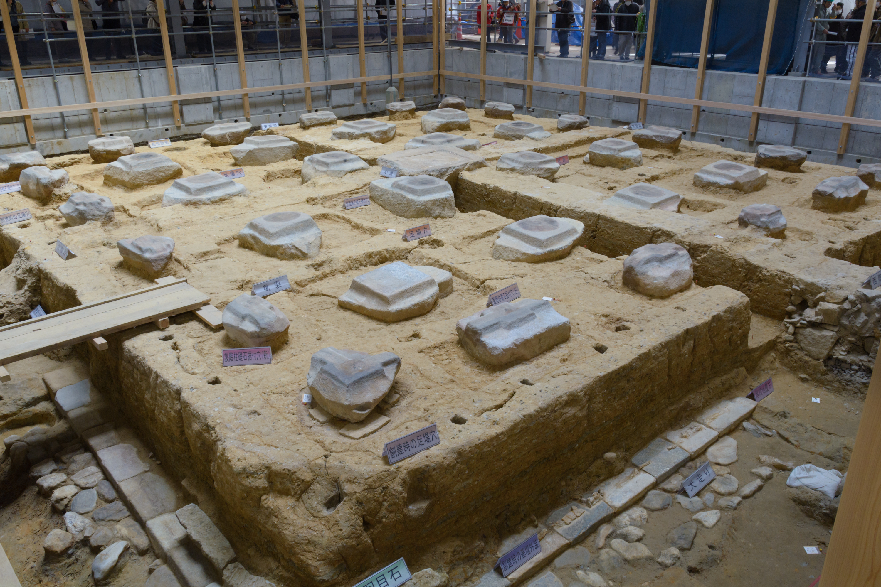 Bared building foundation of the Nara Period in restoration of the East Pagoda at Yakushi-ji